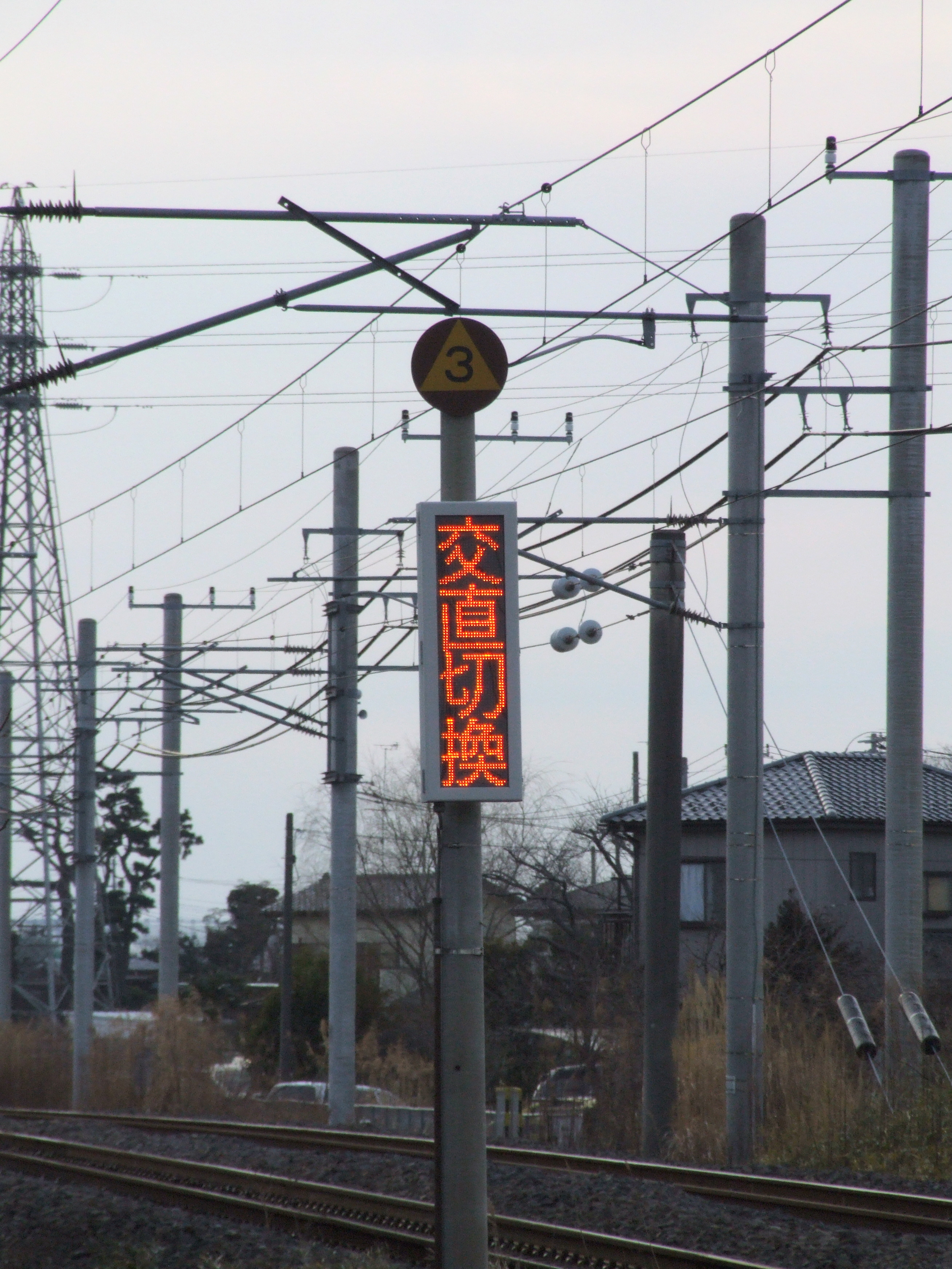 Sign showing an AC/DC section lies ahead